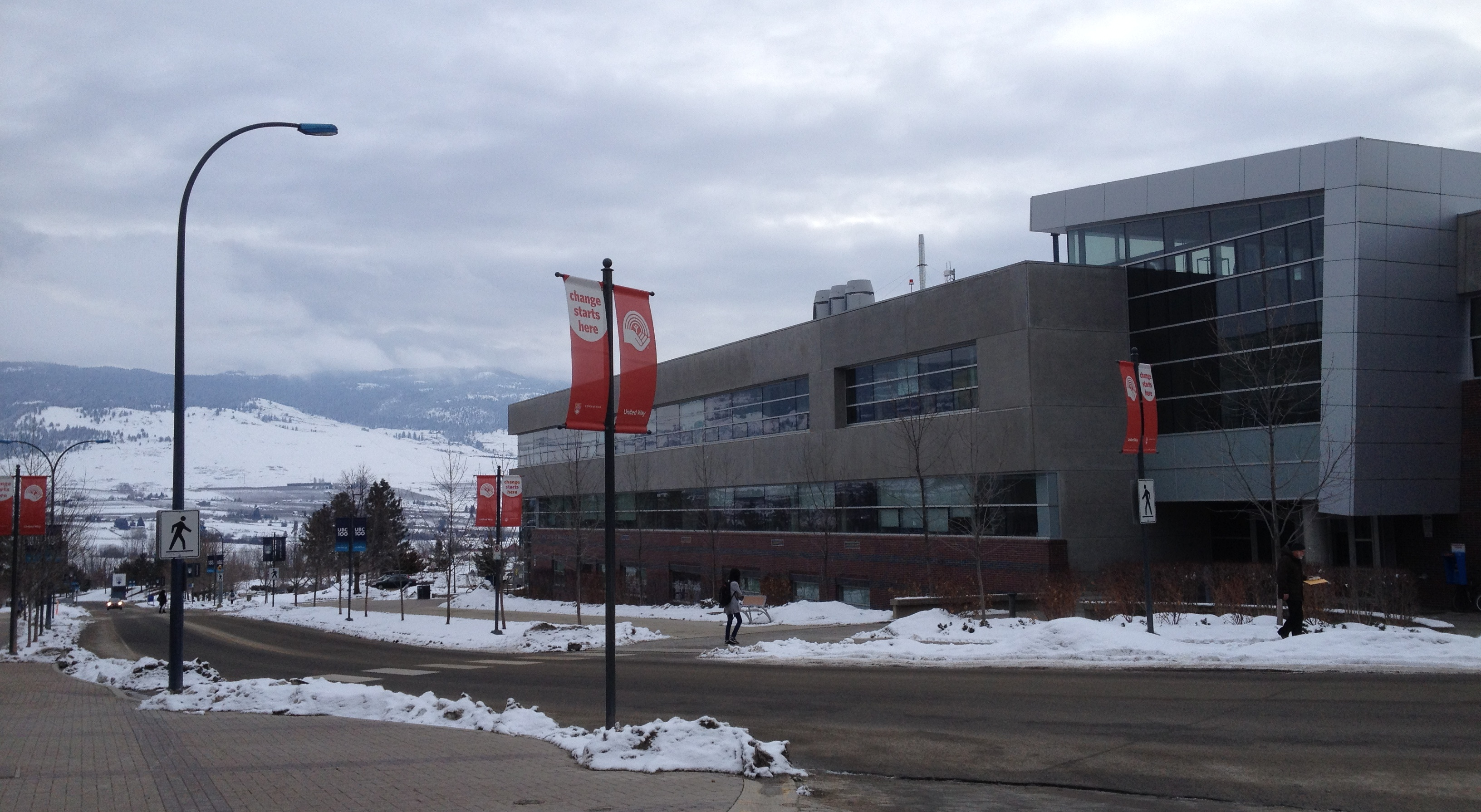 Charles Fipke Building UBCO